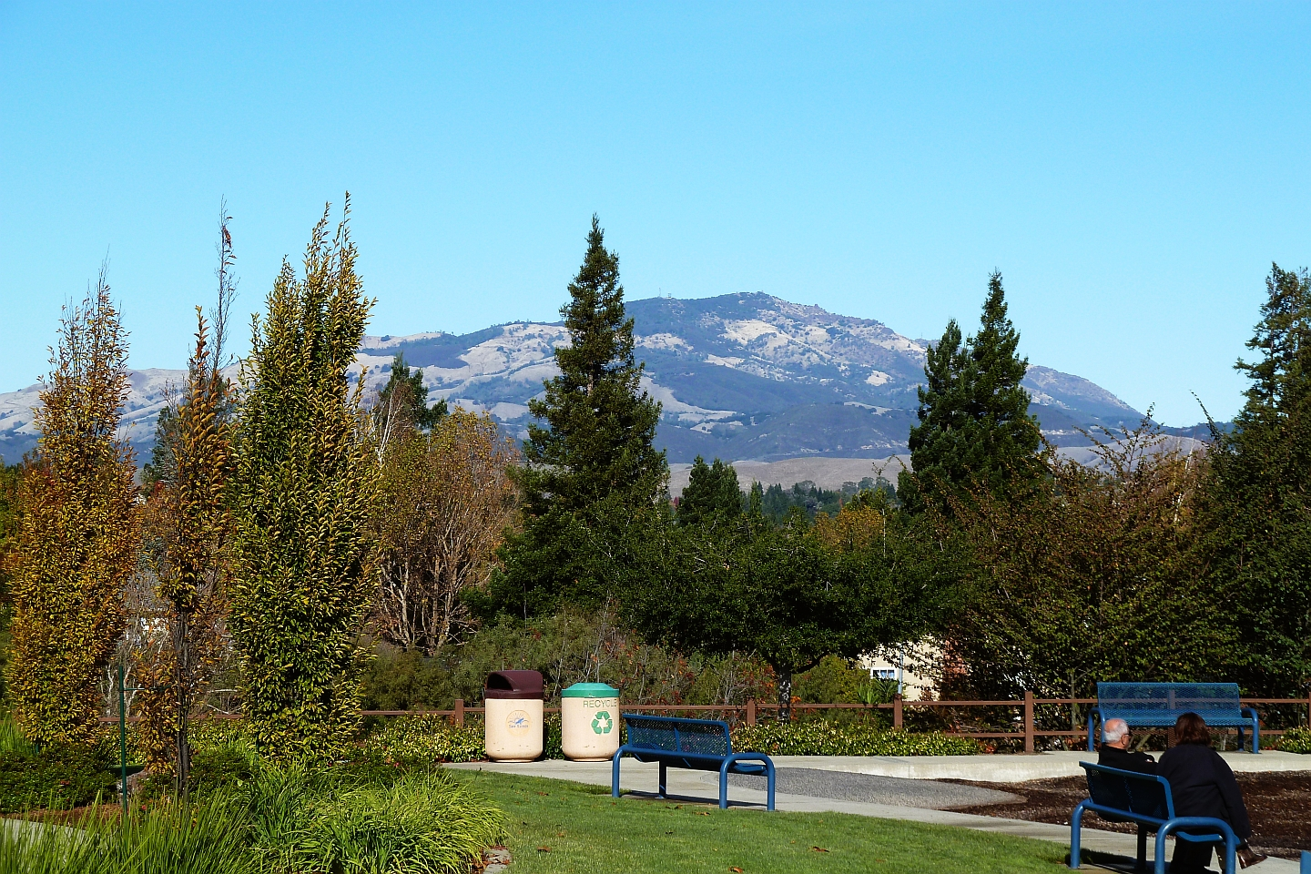 A view of Mount Diablo from San Ramon, USA.